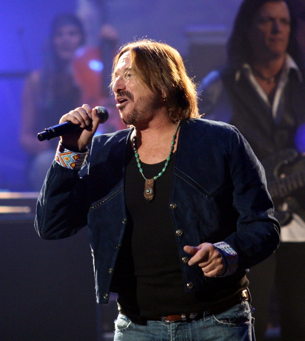 Chuck Negron, former lead singer for Three Dog Night